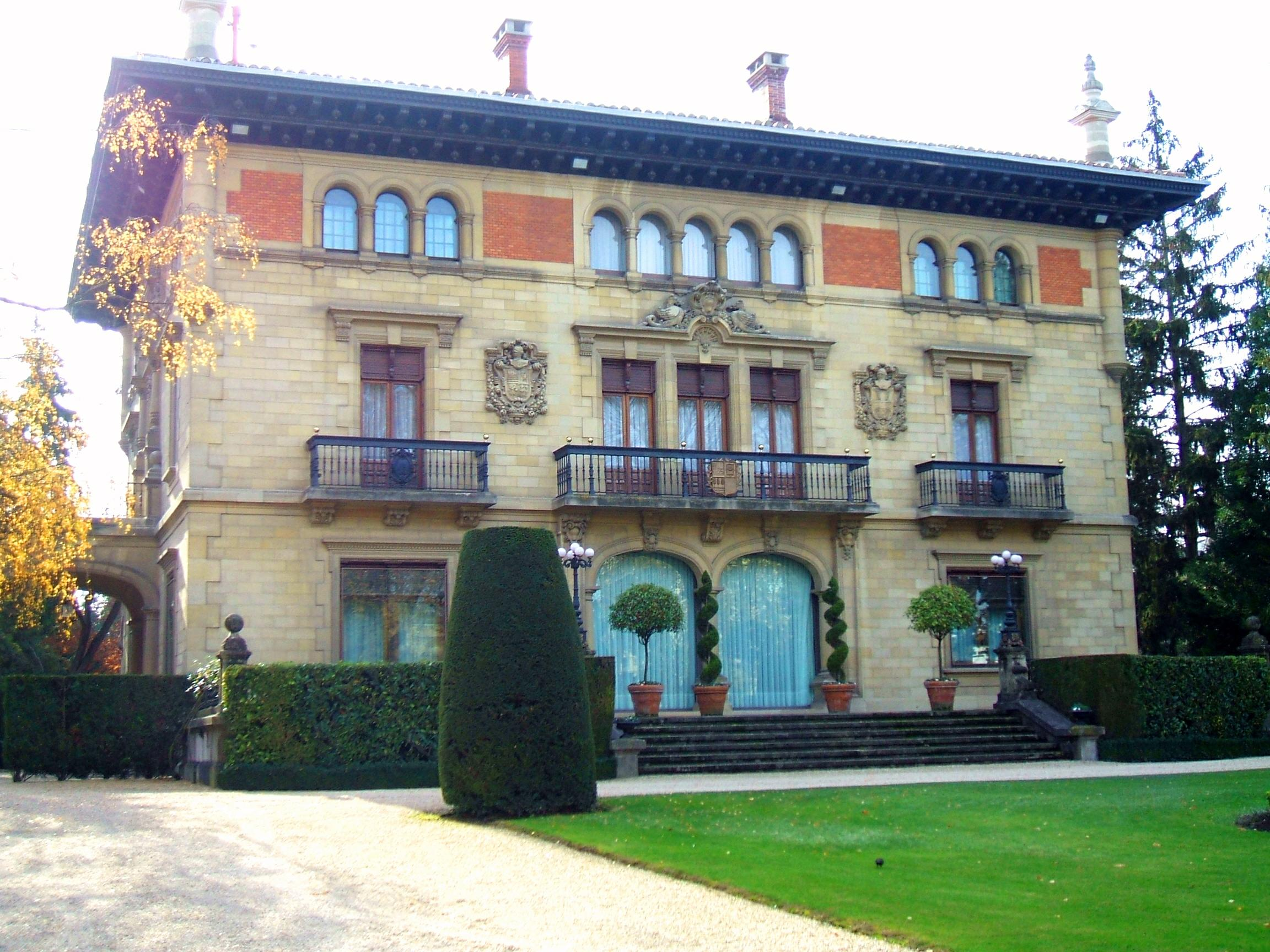 Palacio de Ajuria Enea, residencia oficial del Lehendakari de la Comunidad Autónoma Vasca, en Vitoria-Gasteiz (Álava, País Vasco, España)